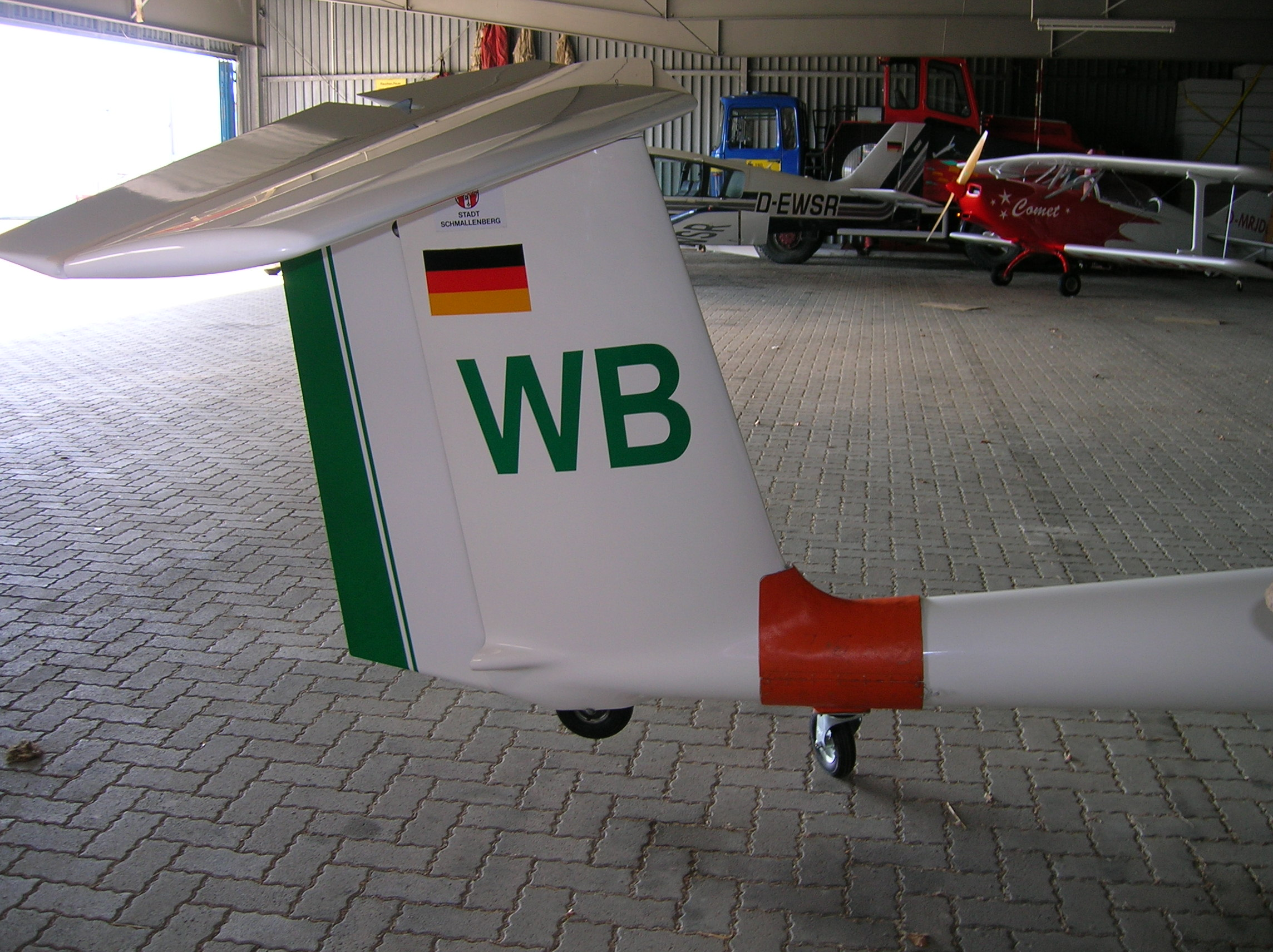 tail dolly on a Schleicher ASK 21